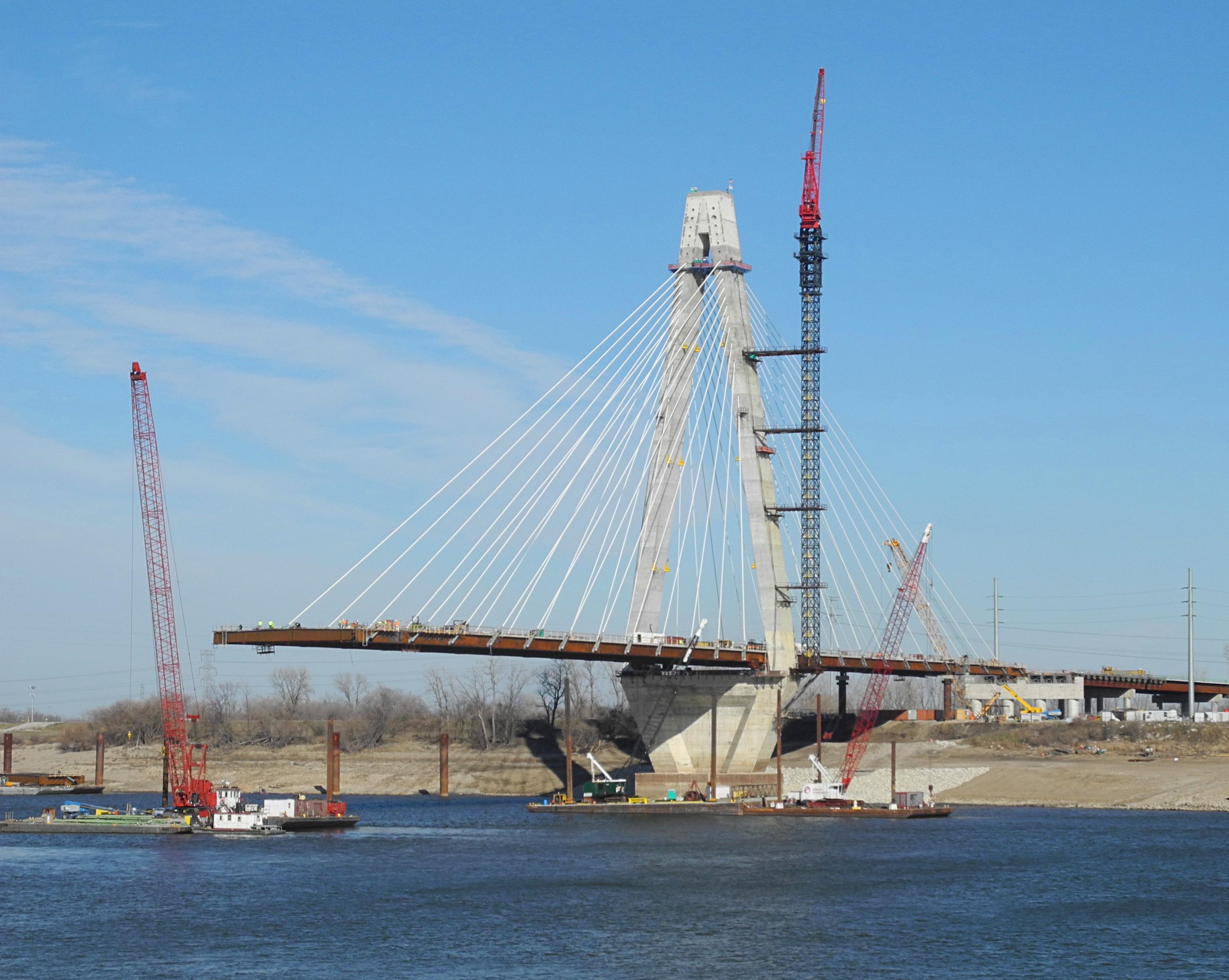 The eastern (Illinois) tower and deck of the Stan Musial Veterans Memorial Bridge under construction in January, 2013, as viewed from the western (Missouri) side of the river. The western tower and deck were at a similar stage of construction at this time with approximately one third of the main structure in place on each side of the river, the middle third yet to be built. The level of the river in this photo is exceptionally low because of a drought. The bridge had not yet received its official name when this photograph was made, hence the file name with the informal moniker New Mississippi River Bridge.